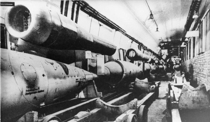 Nordhausen, the Mittelwerk in the Hartz (sic) Mountains, was captured by the United States Third Armoured Division in April 1945 (sic). Found there were many V-1s such as these and also stored V-2s[1]